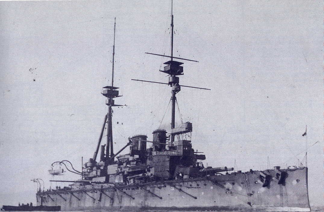 HMS Lord Nelson (1906) during trials in 1908